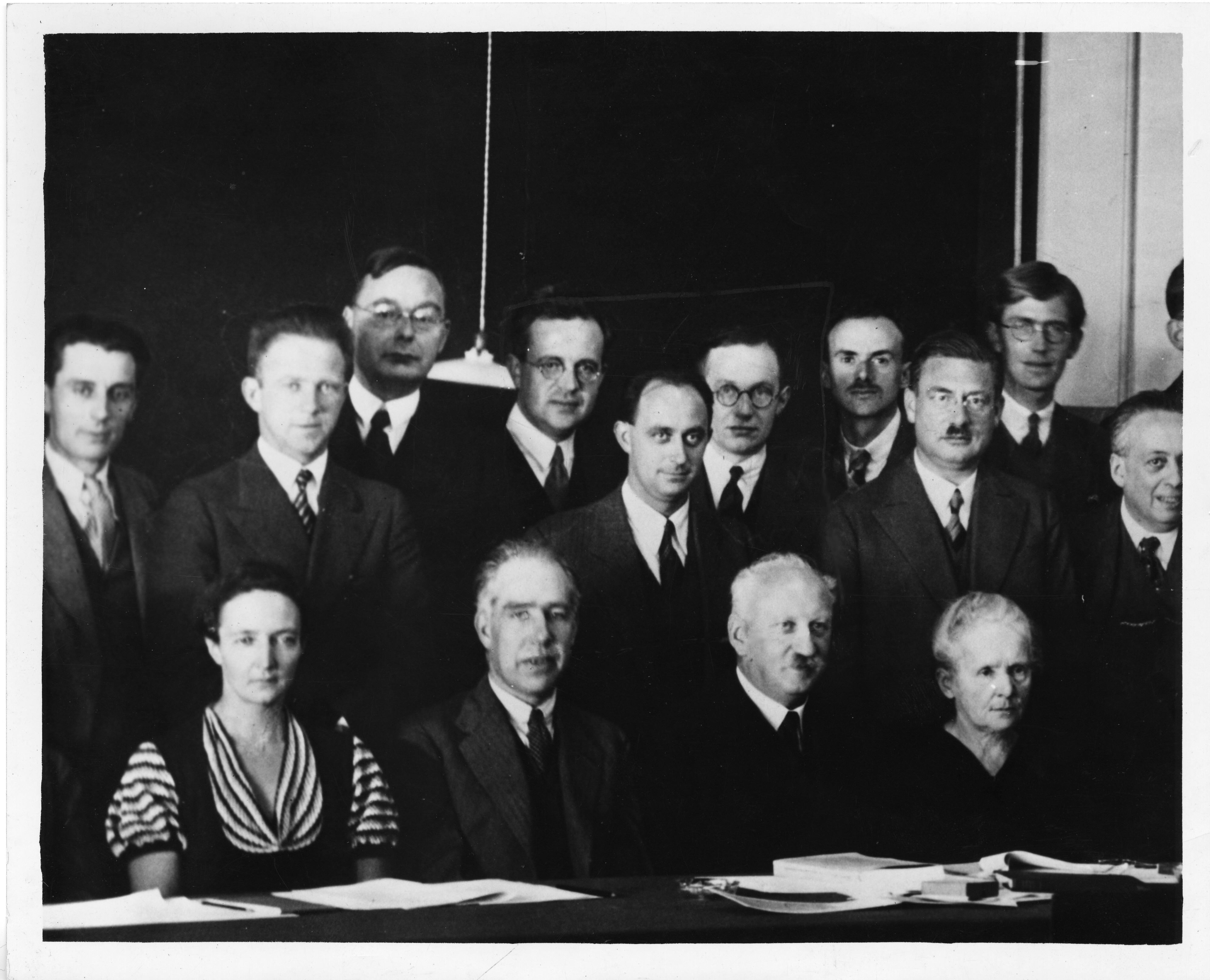 Creator: Science Service Solvay Conference on Physics 1933 sitzend, v.l.n.r. Joliot-Curie, Irène 1897-1956 Bohr, Niels 1885-1962 Ioffe, A. F (Abram Fedorovich) 1880-1960 Curie, Marie 1867-1934 stehend, v.l.n.r. Joliot-Curie, Frédéric (1900-1958) Heisenberg, Werner 1901-1976 Kramers, Hendrik Anthony 1894-1952 Stahel, Ernst 1896-1986 Fermi, Enrico 1901-1954 Walton, Ernest 1903-1995 Dirac, P. A. M (Paul Adrien Maurice) 1902-1984 Debye, Peter J. W (Peter Josef William) (1884-1966) Mott, N. F (Nevill Francis) Sir (1905-1996) Cabrera y Felipe, Blas 1878-1945 Topic: Nuclear physics Local number: SIA Acc. 90-105 [SIA2008-0577] Summary: This image, which includes in the front row (at left) Irène Joliot-Curie (1897-1956) and (at right) her mother Marie Sklodowska Curie (1867-1934), and in back row (left) her husband Frédéric Joliot (1900-1958), is part of a photograph taken of all attendees. Nearly every major scientist interested in research relating to atomic physics attended that meeting. In the front row are Irene Curie, Niels Henrik David Bohr (1885-1962), Abram Fedorovich Ioffe (1880-1960), and Marie Curie; in the back row (from left) are Joliot, Werner Heisenberg (1901-1976), Hendrik Anthony Kramers (1894-1952), Ernst Stahel (b. 1896), Enrico Fermi (1901-1954), Ernest Thomas Sinton Walton (1903-1995), Paul Adrien Maurice Dirac (1902-1984), Peter Joseph William Debye (1884-1966), Nevill Francis Mott (1905-1996), and Blas Cabrera y Felipe (1878-1945). The black crop lines visible around Fermi's head were made by a Science Service editor Cite as: Acc. 90-105 - Science Service, Records, 1920s-1970s, Smithsonian Institution Archives Persistent URL: Repository:Smithsonian Institution Archives View more collections from the Smithsonian Institution.